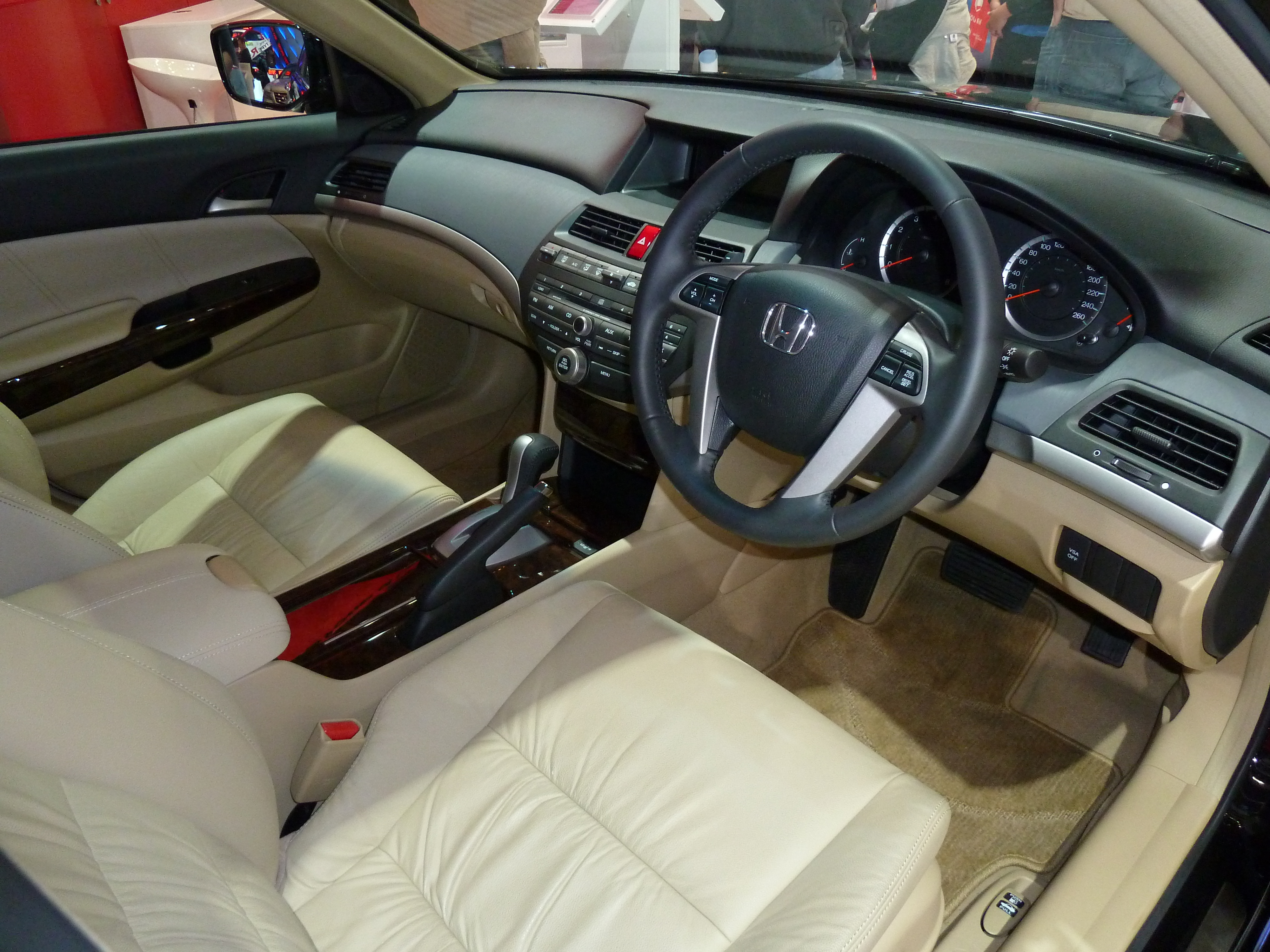 2010 Honda Accord (MY10) VTi-L sedan. Photographed at the 2010 Australian International Motor Show, Sydney, New South Wales, Australia.